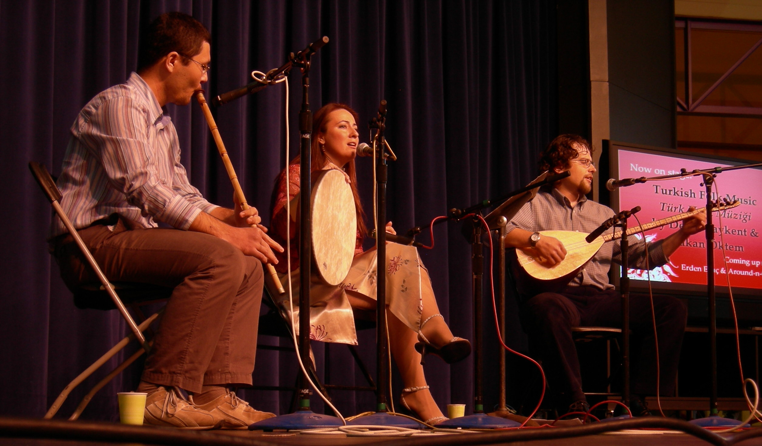 Left to right: Unidentified flautist; vocalist Derya Baykent; baglama player Hakan Öktem, performing at Turkfest, Center House, Seattle Center, Seattle, Washington, USA